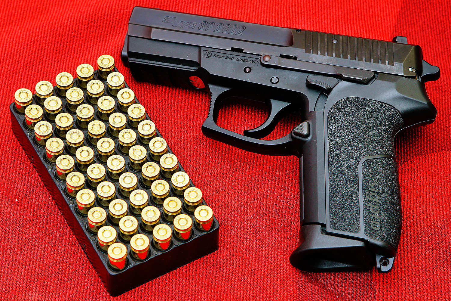 SIG Prosemi-automatic pistol (SP 2022 variant)